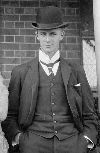 Charles Lucas Townsend pictured at the Hastings cricket festival, 5th September 1898